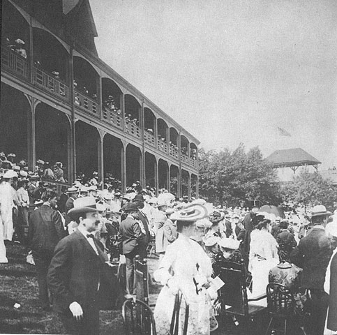 Washington Park Race Track, 61st and South Park (King Drive), c. 1900.